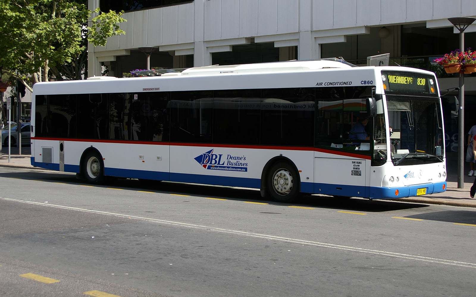 Deane's Buslines ABM 'CB60' bodied Mercedes-Benz O 405 NH (4550-MO, built 2002) at Civic Bus Interchange in Canberra, Australia.